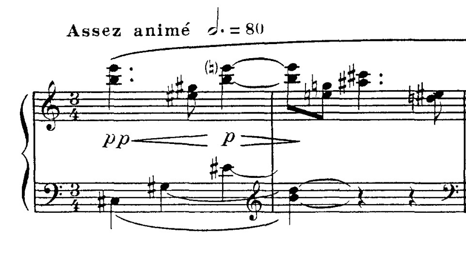 Valse No. 4